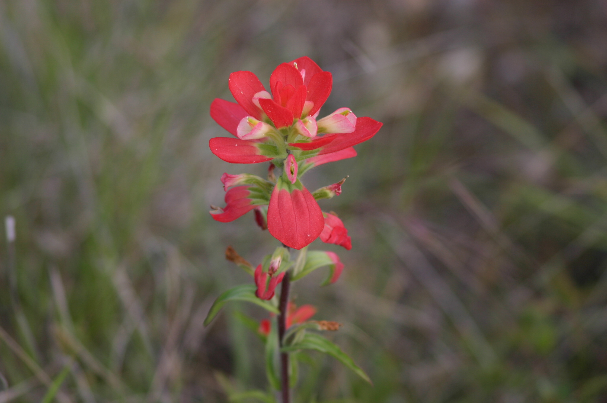 Castilleja indivisa (Entire-leaf Indian Paintbrush, also known as Texas Paintbrush). Photo taken at Gorman Creek Trail, Colorado Bend State Park, Texas, USA